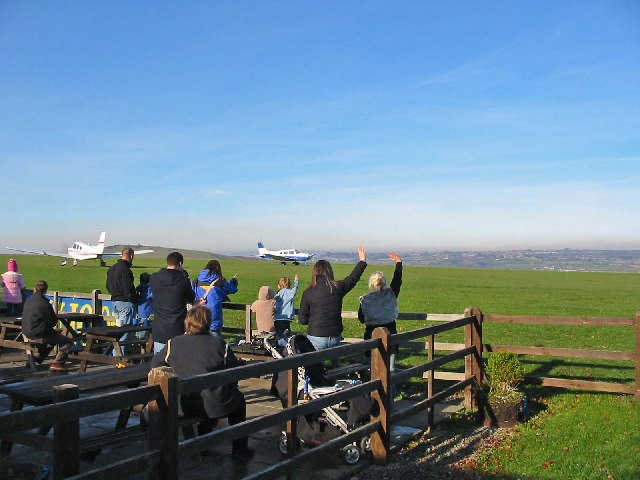 Compton Abbas airfield. View from the patio outside the club house and restaurant. Looking NW across the landing strip,Melbury beacon between the aircraft and Shaftesbury on the right. A very popular airfield with flyers. Spectacular views.